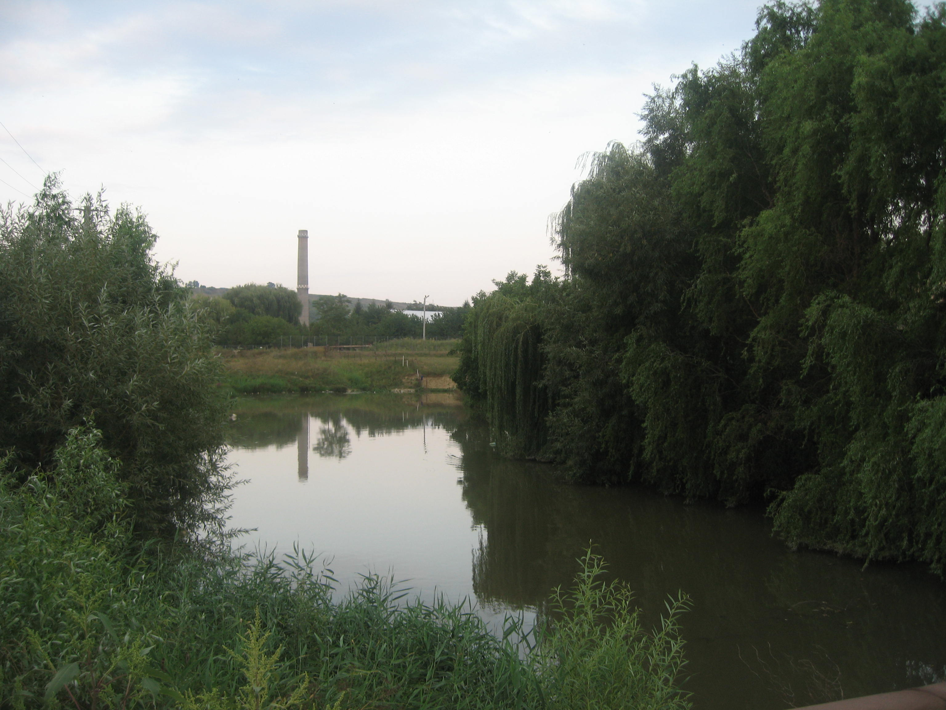 Lacul Ezăreni